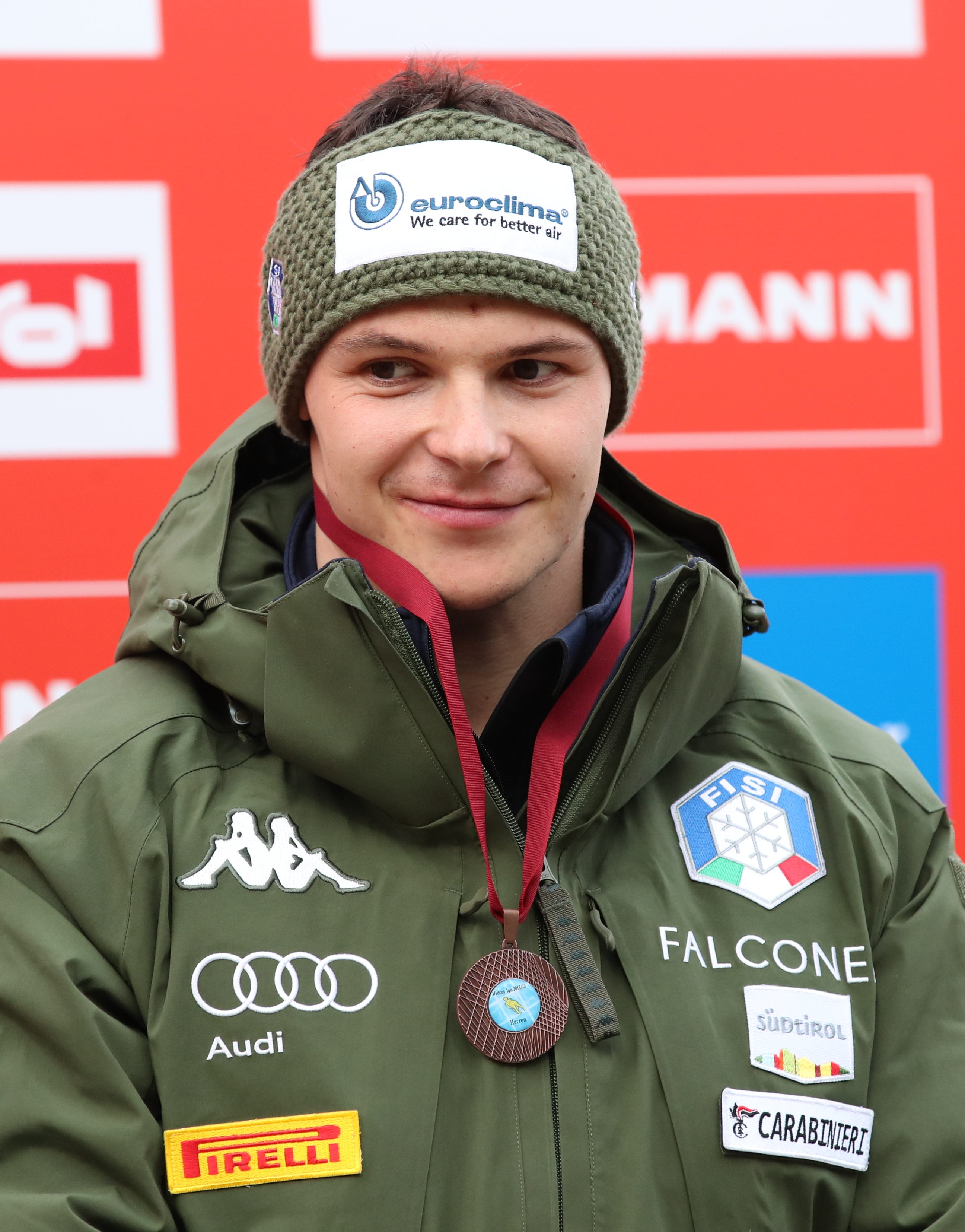 Sundays Medal Ceremonies (Men's Single, Team Relay) at the 2019/20 Luge World Cup in Innsbruck-Igls